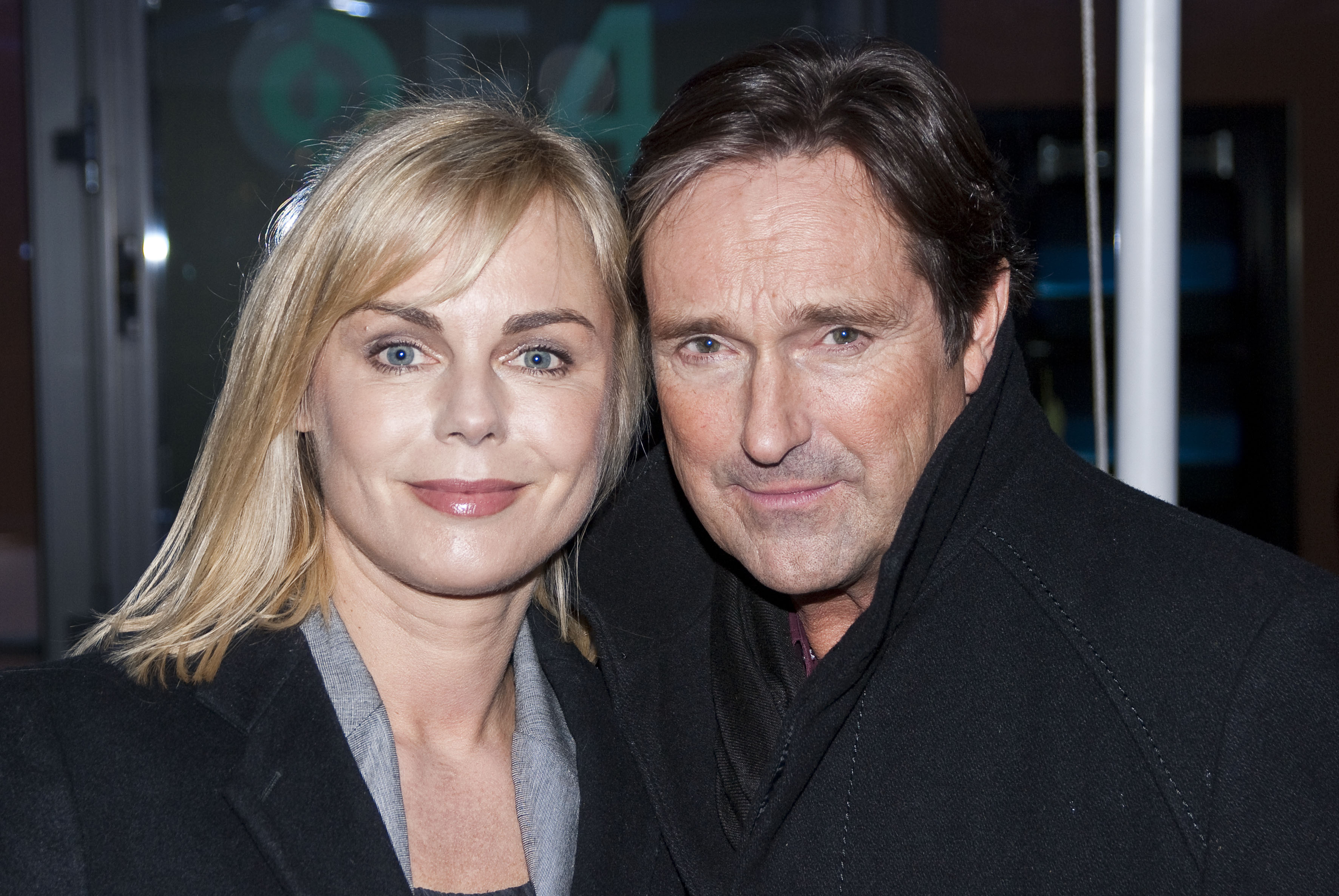 German actors Saskia Valencia and Helmut Zierl at the 59th Berlin International Film Festival